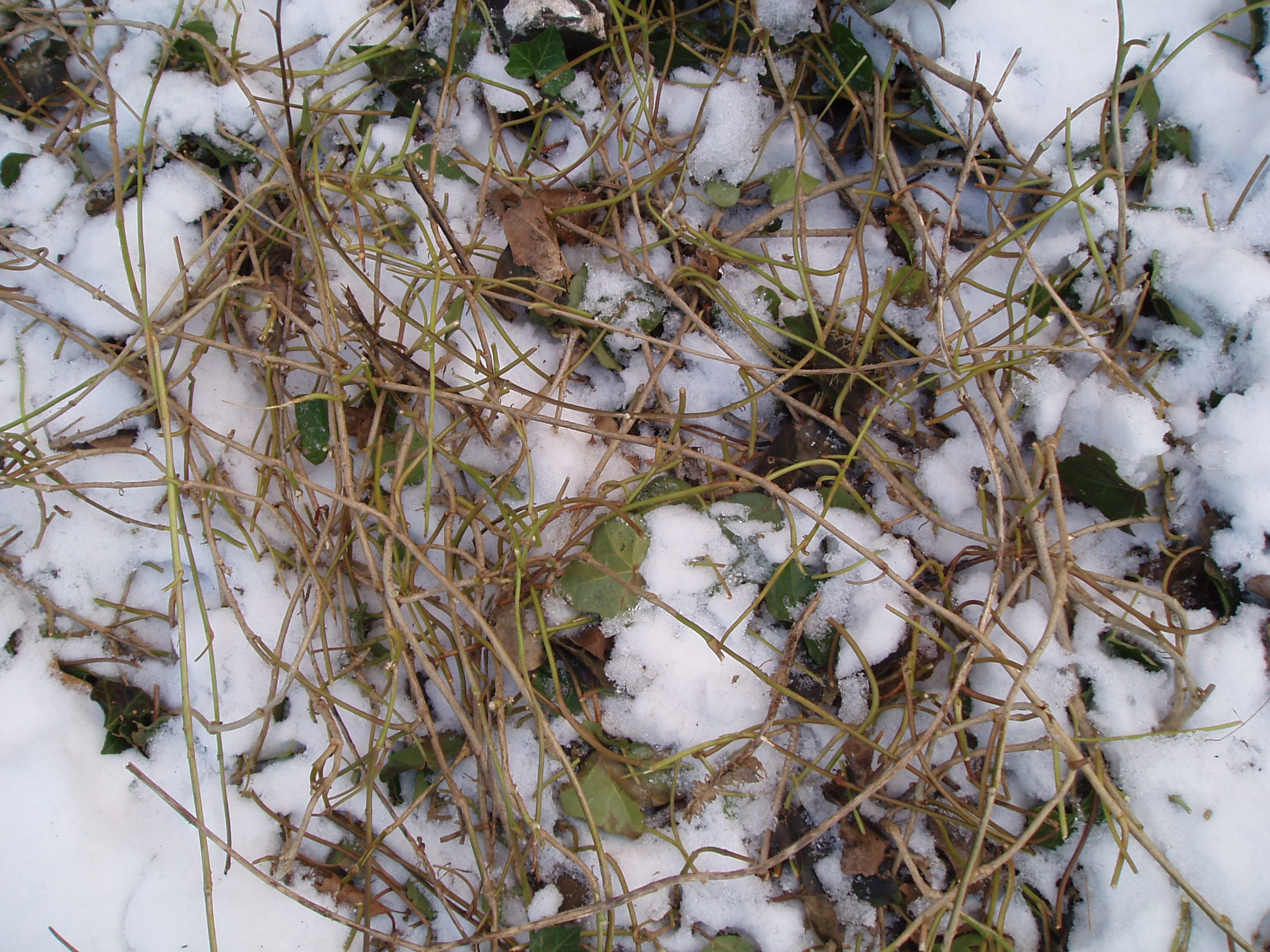 Ivy (Hedera helix) eaten by Roe deer (Capreolus capreolus).